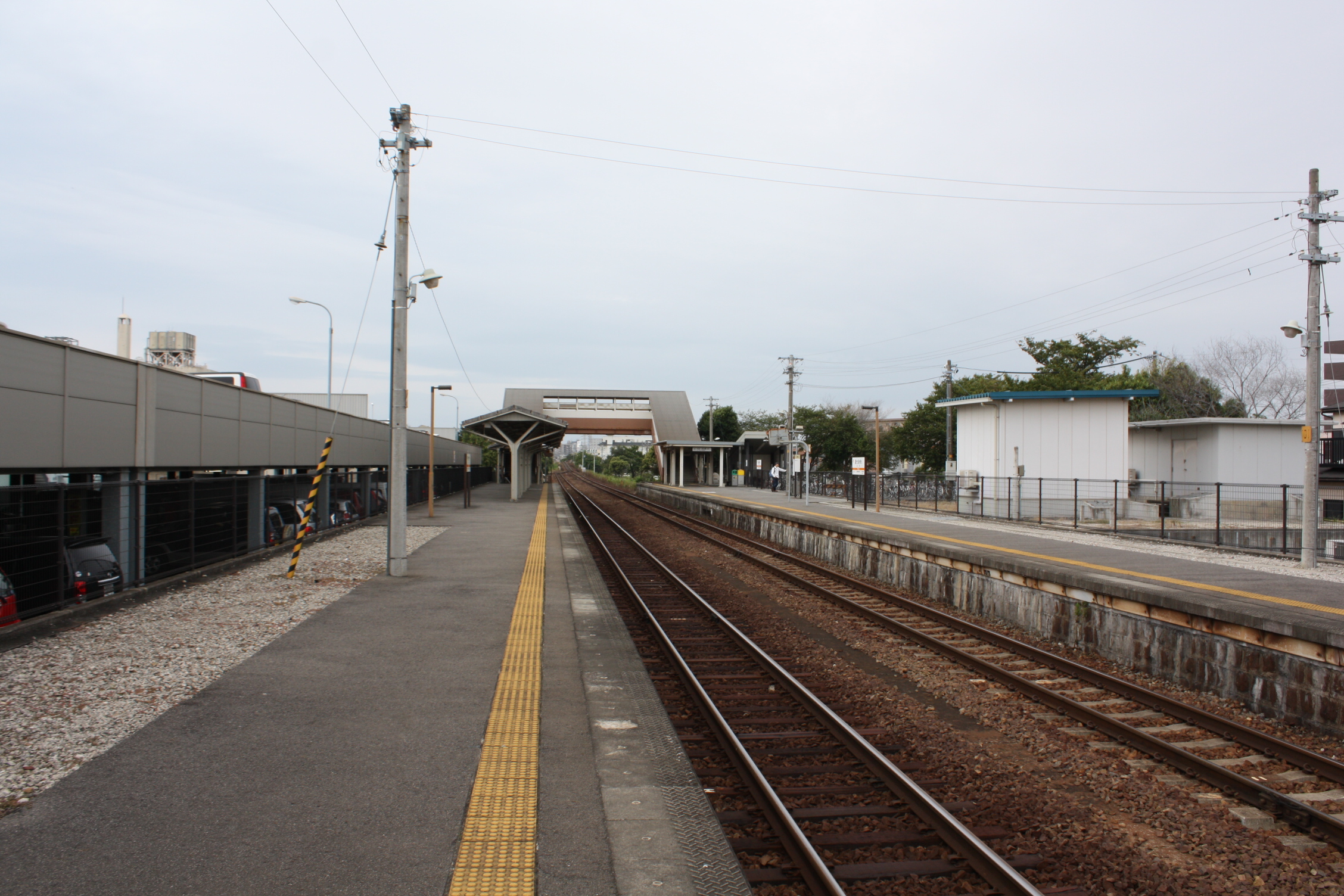 Platforms of Okkawa Station, JR Central Taketoyo Line.